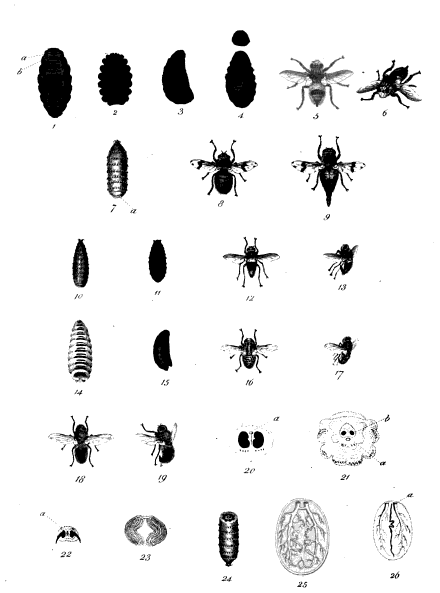 Illustration of the botfly genus, Oestrus. From a 1797 paper of Bracy Clark in the Transactions of the Linnean Society.[1], following page 328